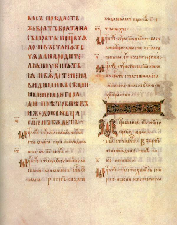 First known russian manuscript Ostromir Gospel. It was created by deacon Gregory for his patron, Posadnik Ostromir of Novgorod, in 1056 or 1057. Shown List 271b.